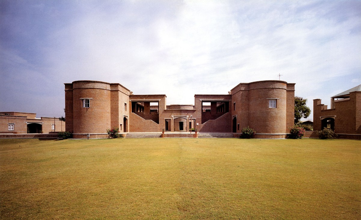 The Entrepreneurship Development Institute of India campus was conferred the Aga Khan Award for Architecture in 1992. Constructed in 1987, the Institute is located on the outskirts of the city of Ahmedabad.